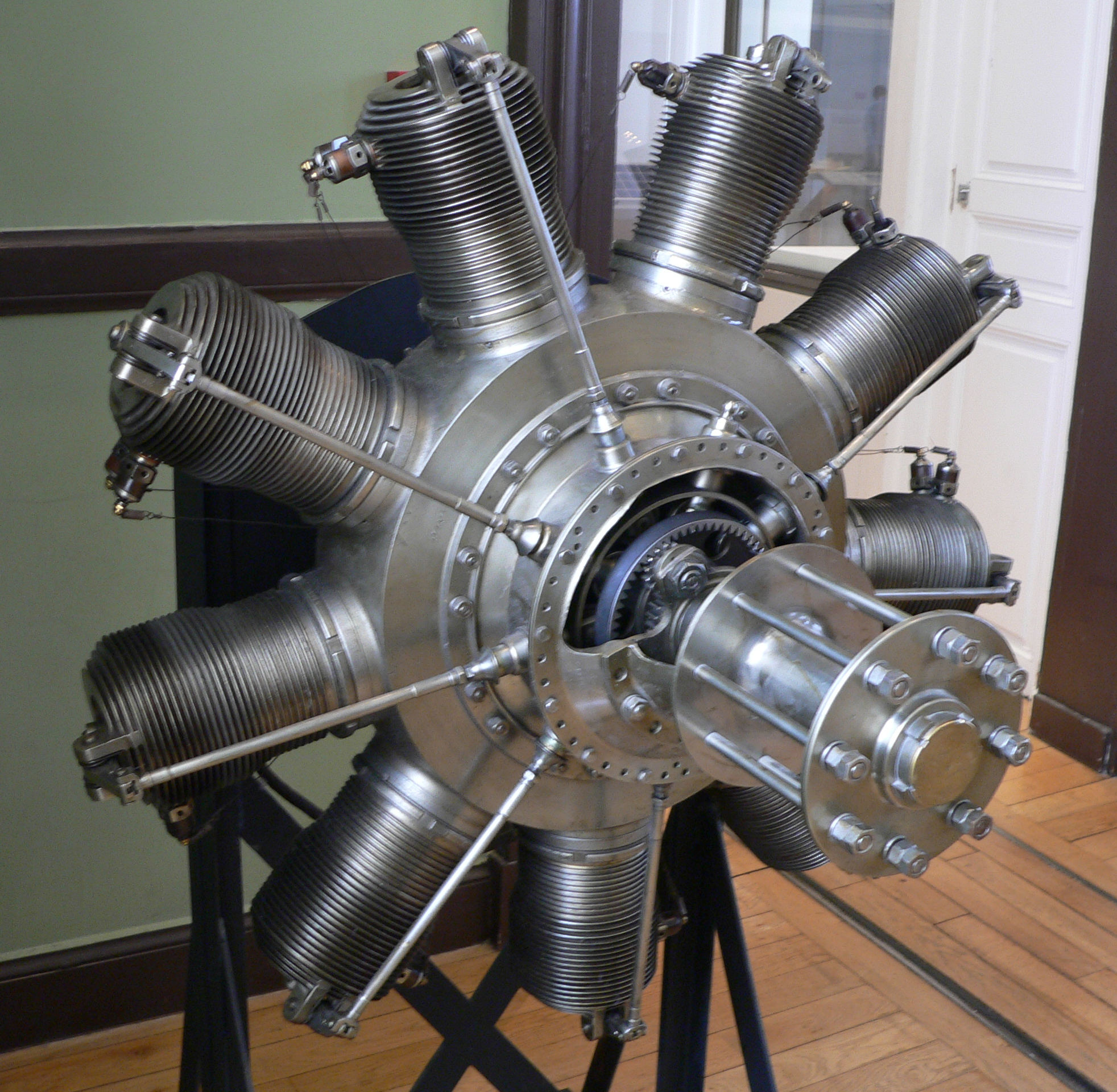 Gnome Monosoupape 9N rotary aero-engine